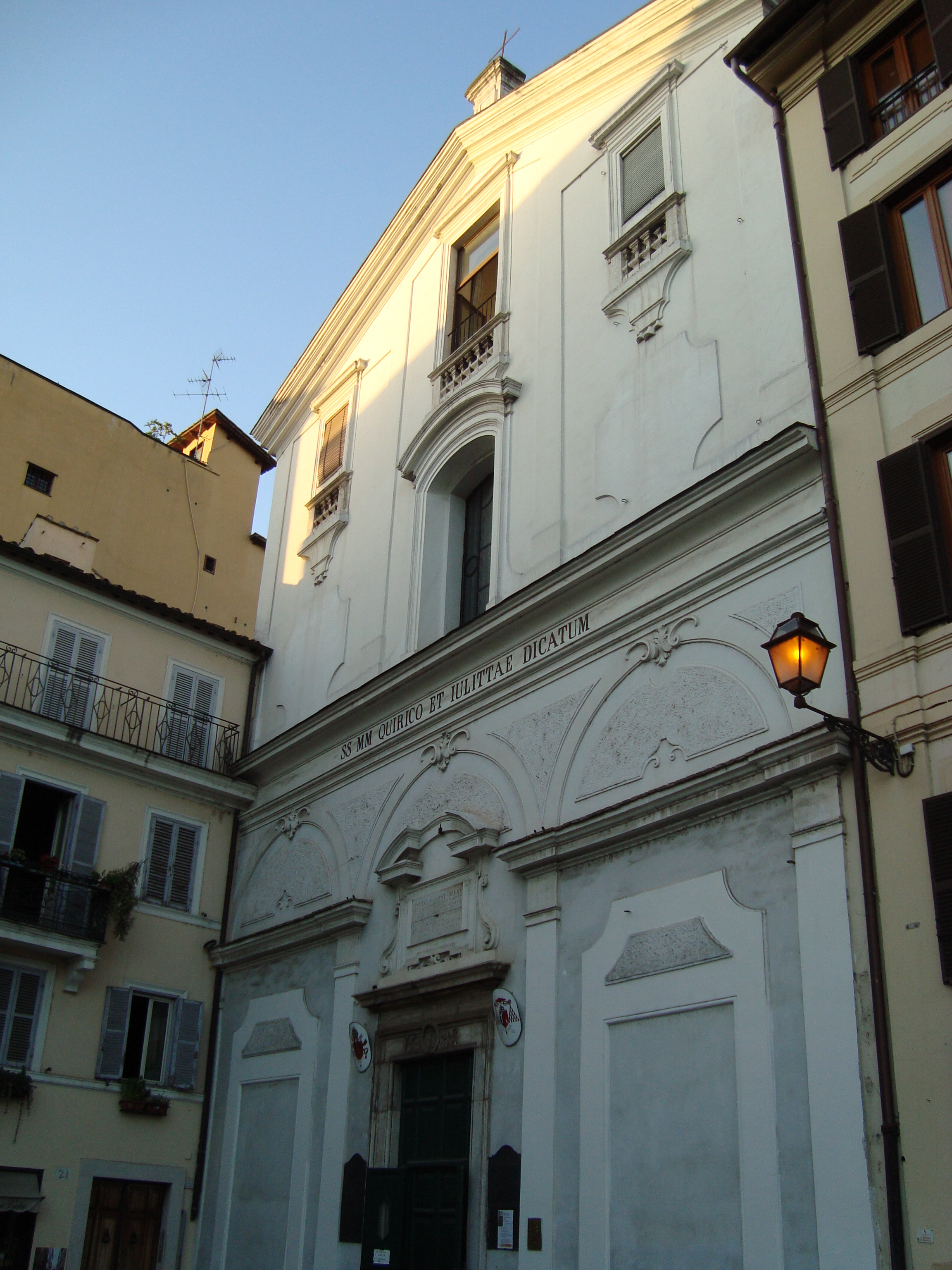 Church Santi Quirico e Giulitta in rione Monti of Rome